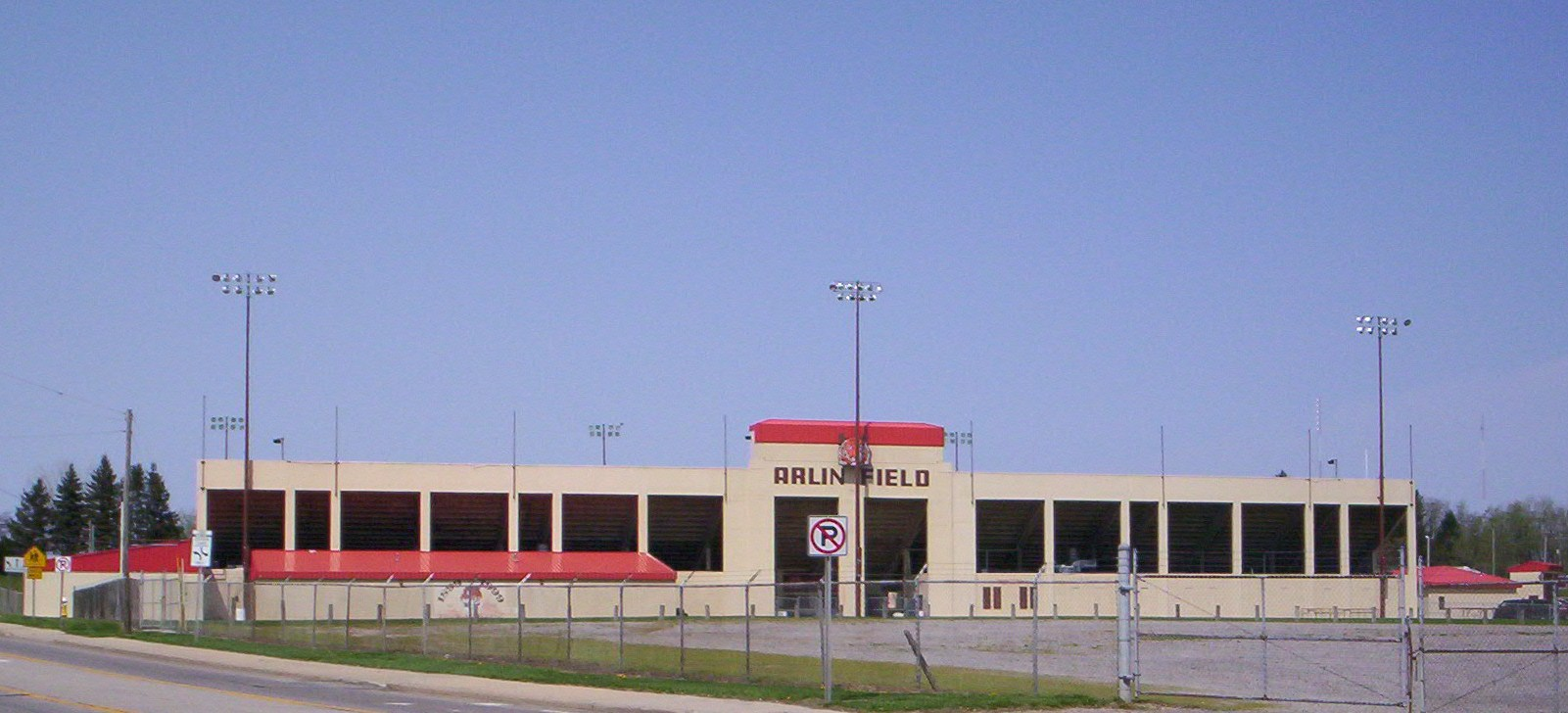 This photograph of Arlin Field (Mansfield Tygers' Stadium) is located on West 4th Street near the North Trimble Road intersection (just west of Mansfield Senior High School) in Mansfield, Ohio.